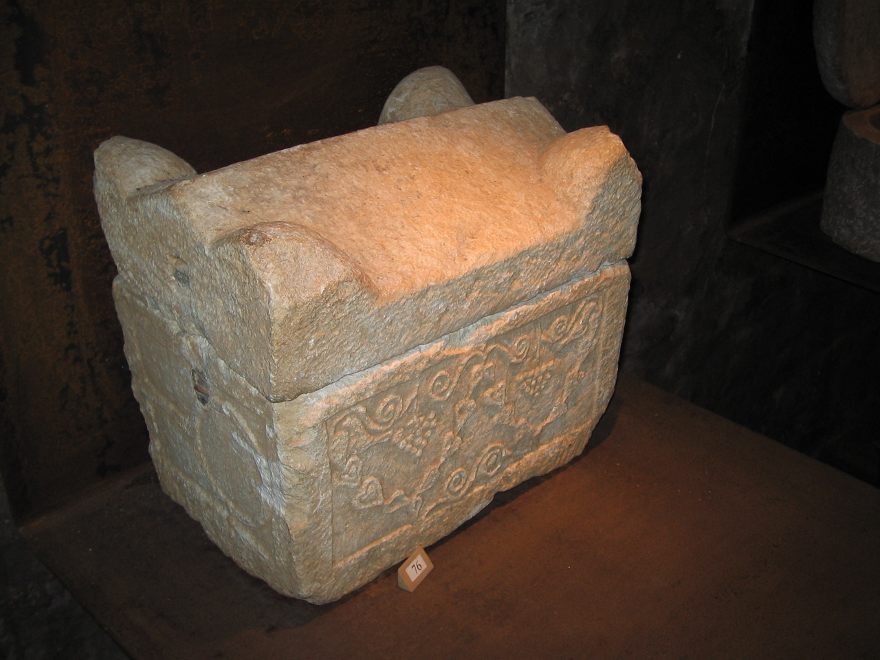 Archeological Museum Shkodra